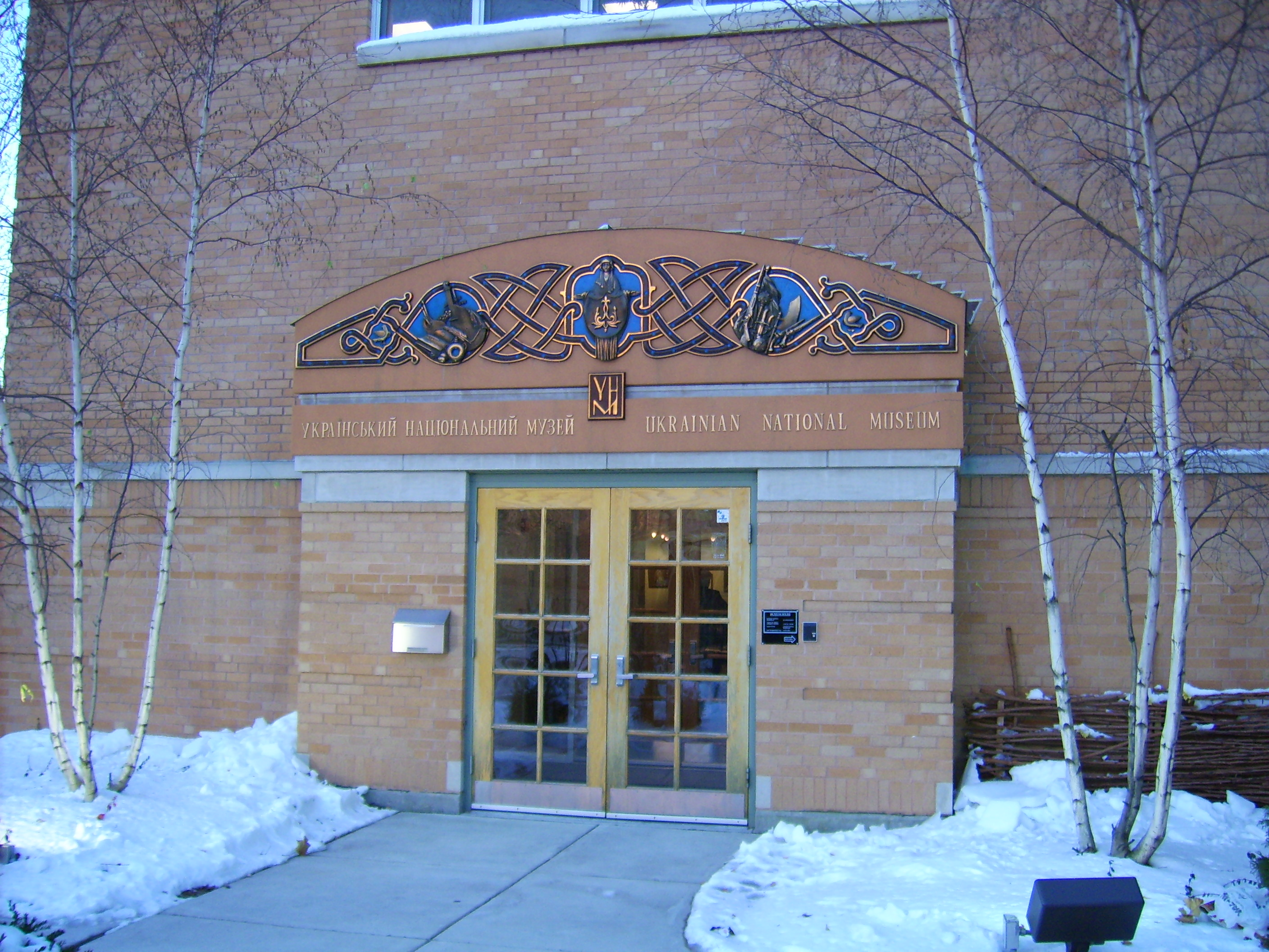 Ukrainian National Museum in Ukrainian Village, Chicago, featuring a bronze relief by sculptor Yevgeniy Prokopov over the entrance.